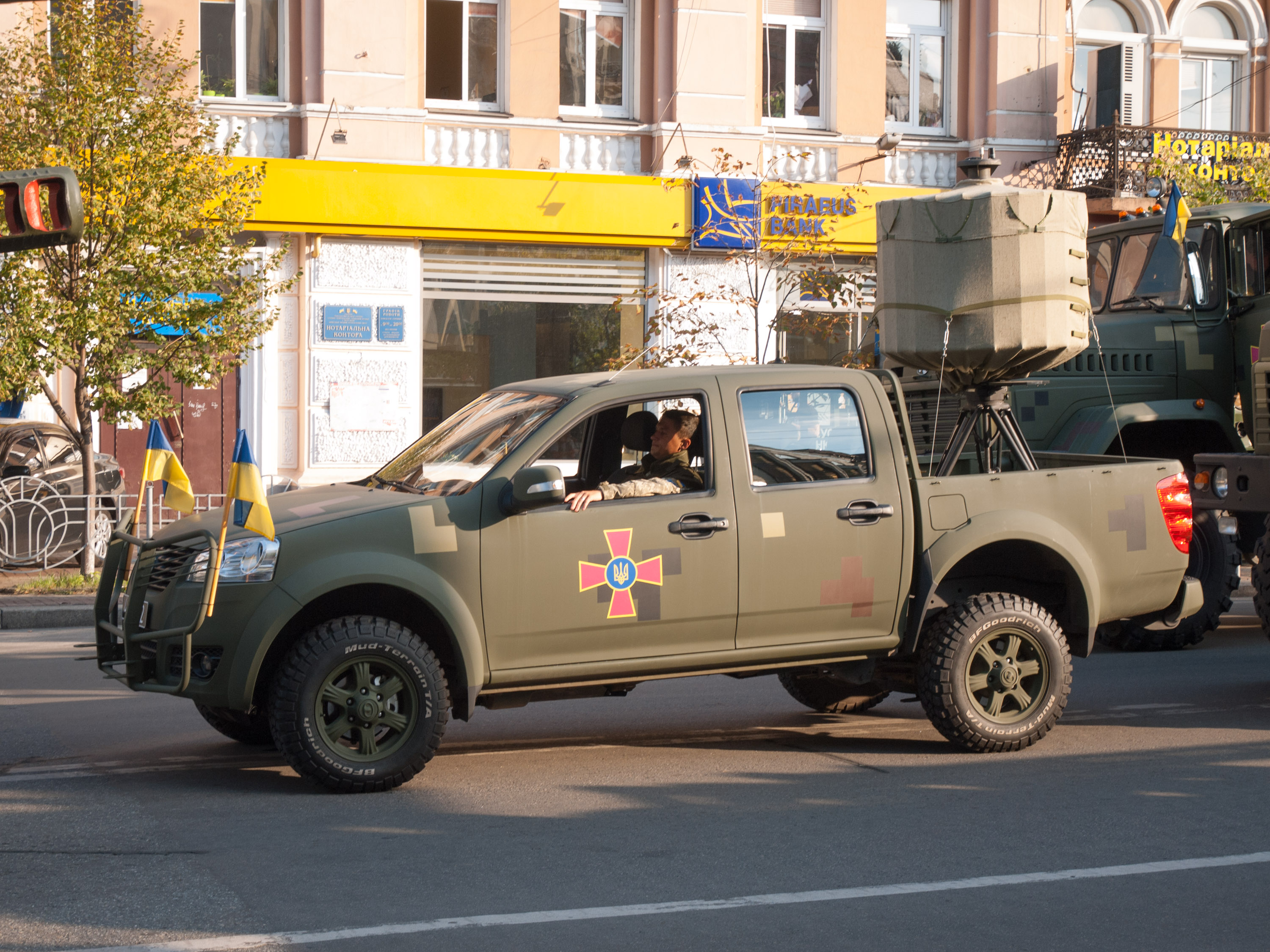 Bogdan-2351 vehicle and AN-TPQ-48 military radar, rehearsal for the Independence Day military parade in Kyiv, 2018